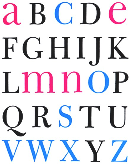 Alphabet 26 - a simplified alphabet developed by Bradbury Thompson in 1950